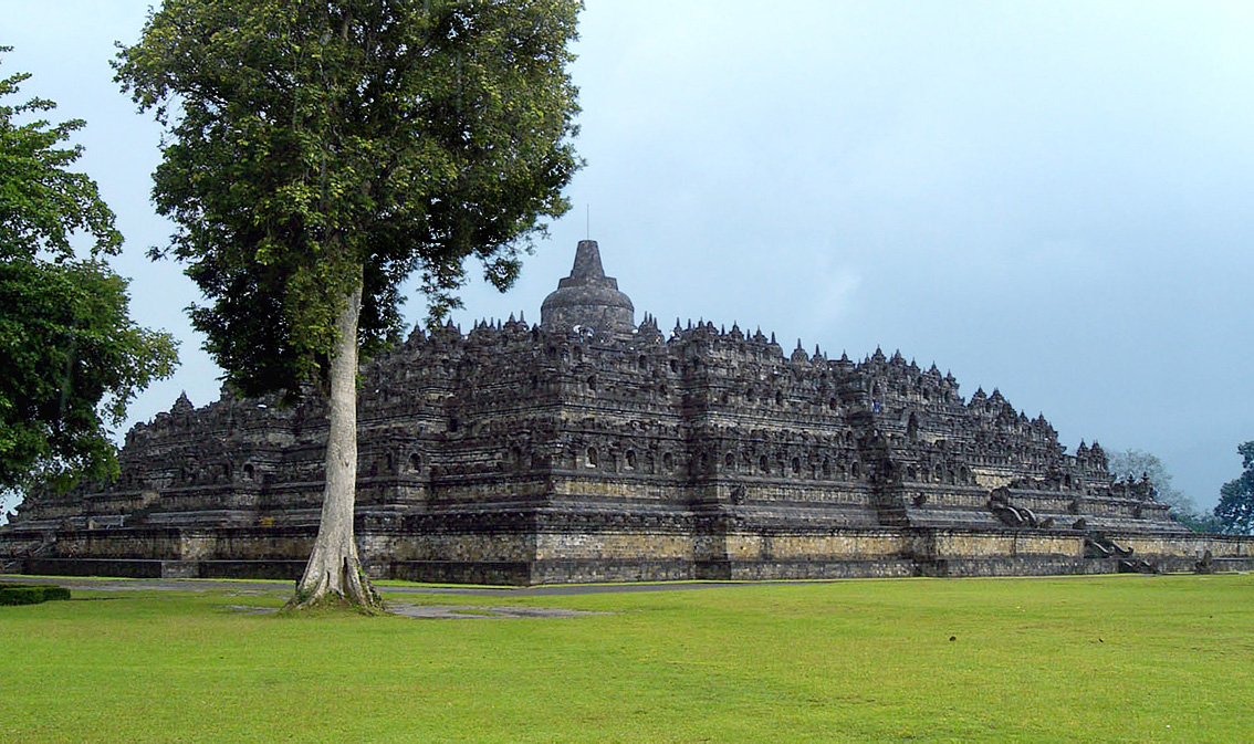 Borobudur view taken from northwest plateau